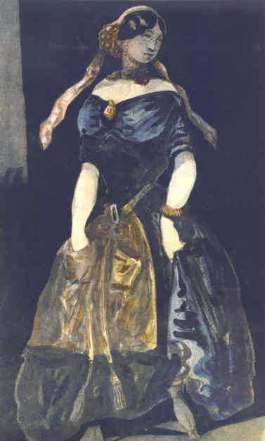 Description: La Grisette, coloured ink and watercolour, by Constantin Guys (French, 1805-1892) Source: University of California San Diego Retrieved 8 March 2008. The painting is also published on Great Modern Pictures